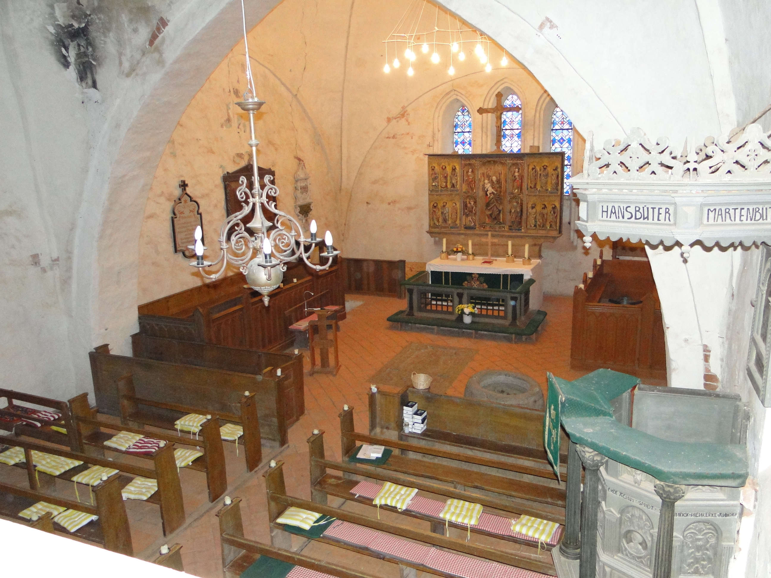 Church in Zehna, district Rostock, Mecklenburg-Vorpommern, Germany